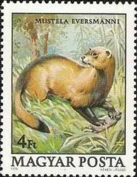 Steppe polecat, as illustrated on a 1979 Hungarian stamp